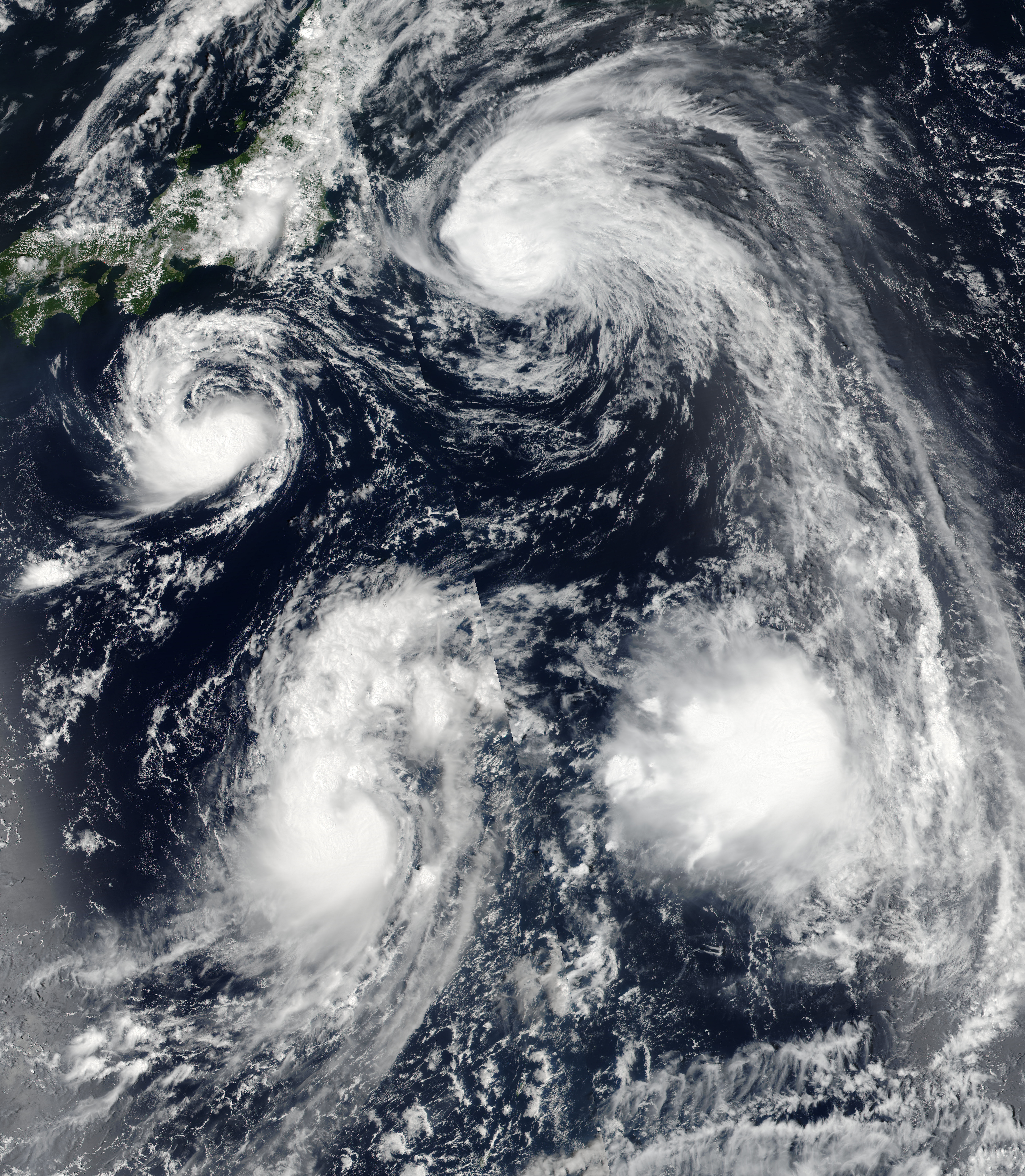 Tropical Storms Mindulle (10W), Lionrock (12W), and Kompasu (13W) off Japan